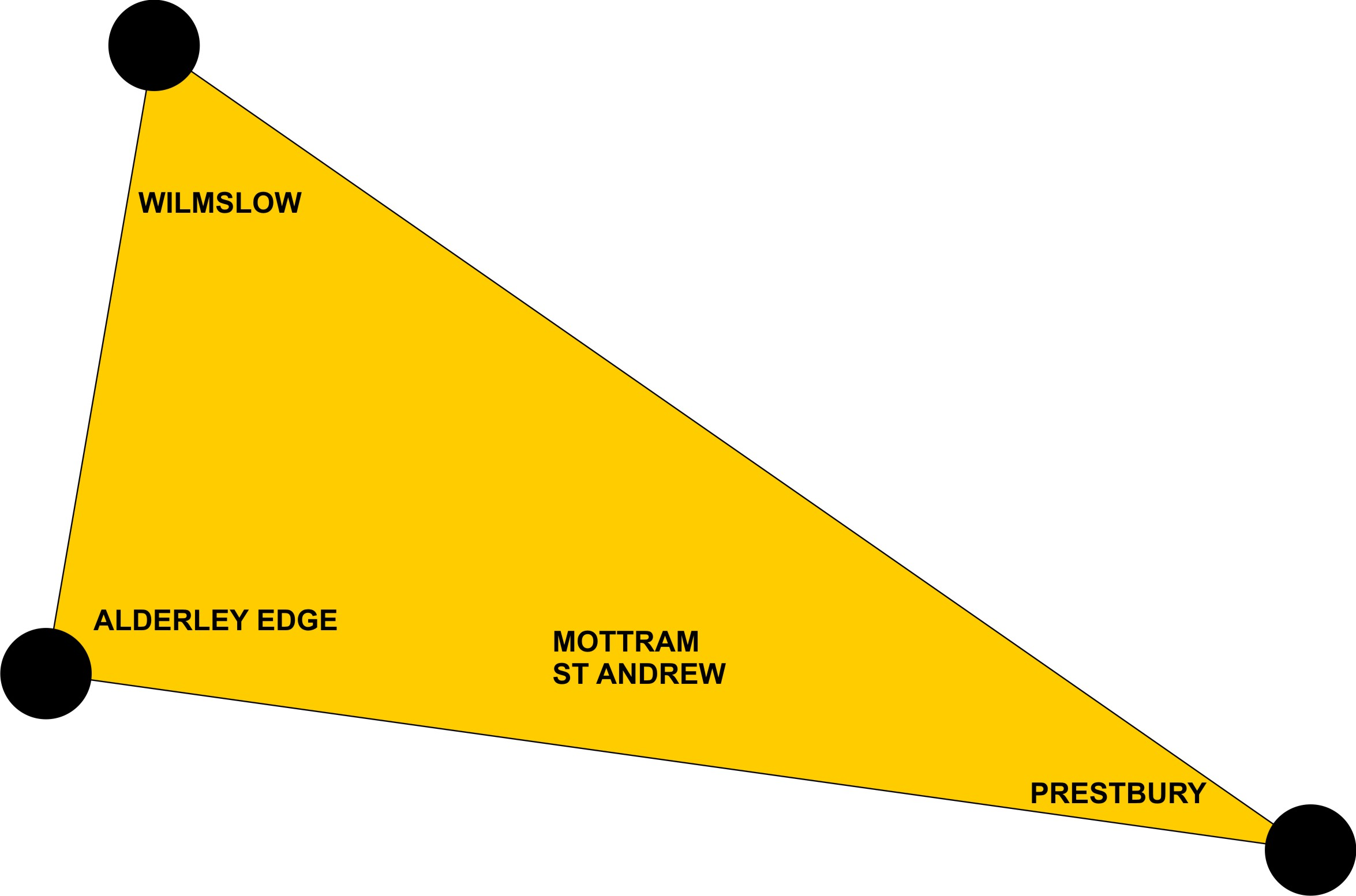 The "Cheshire Golden Triangle"